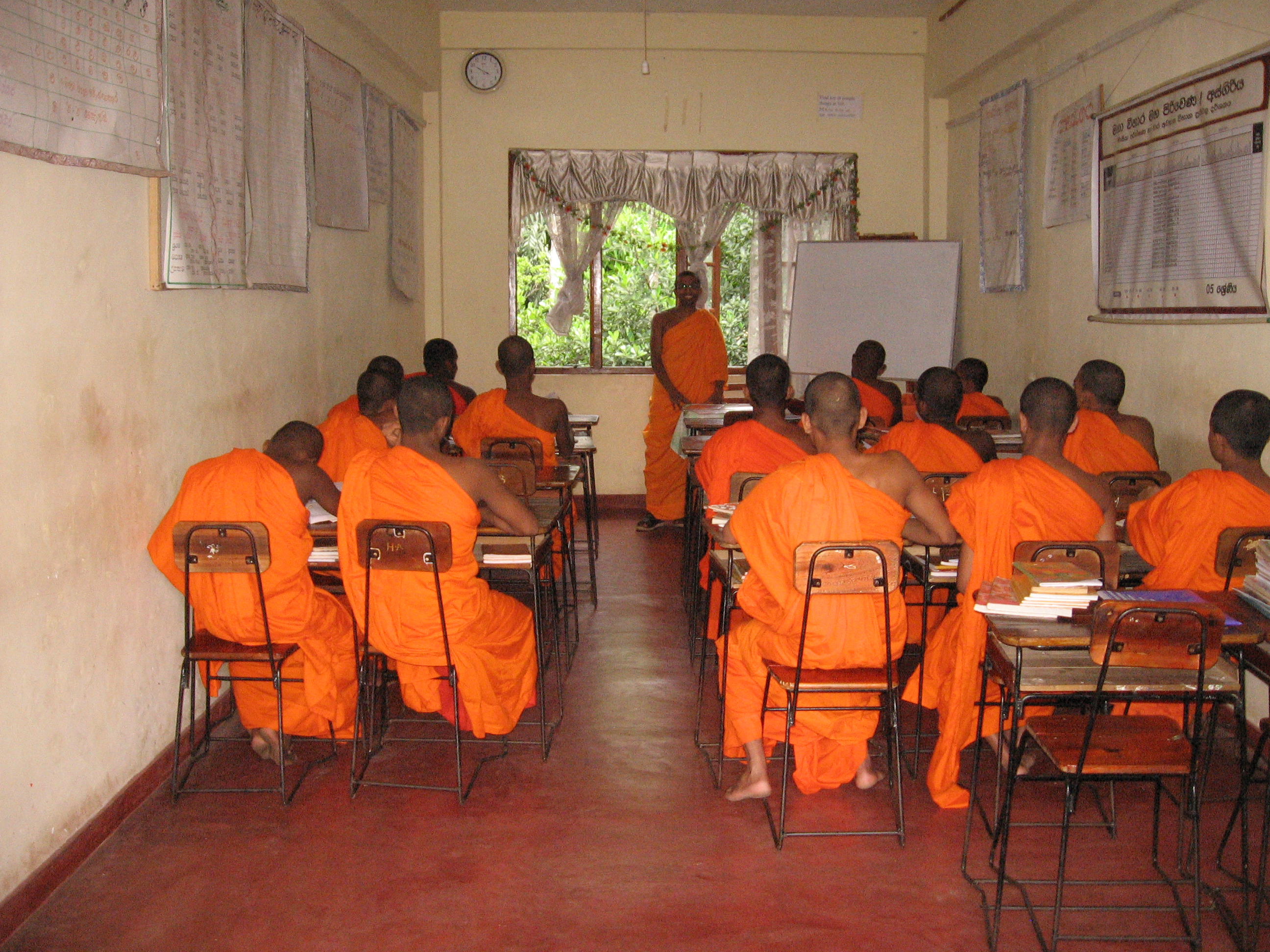 lesson